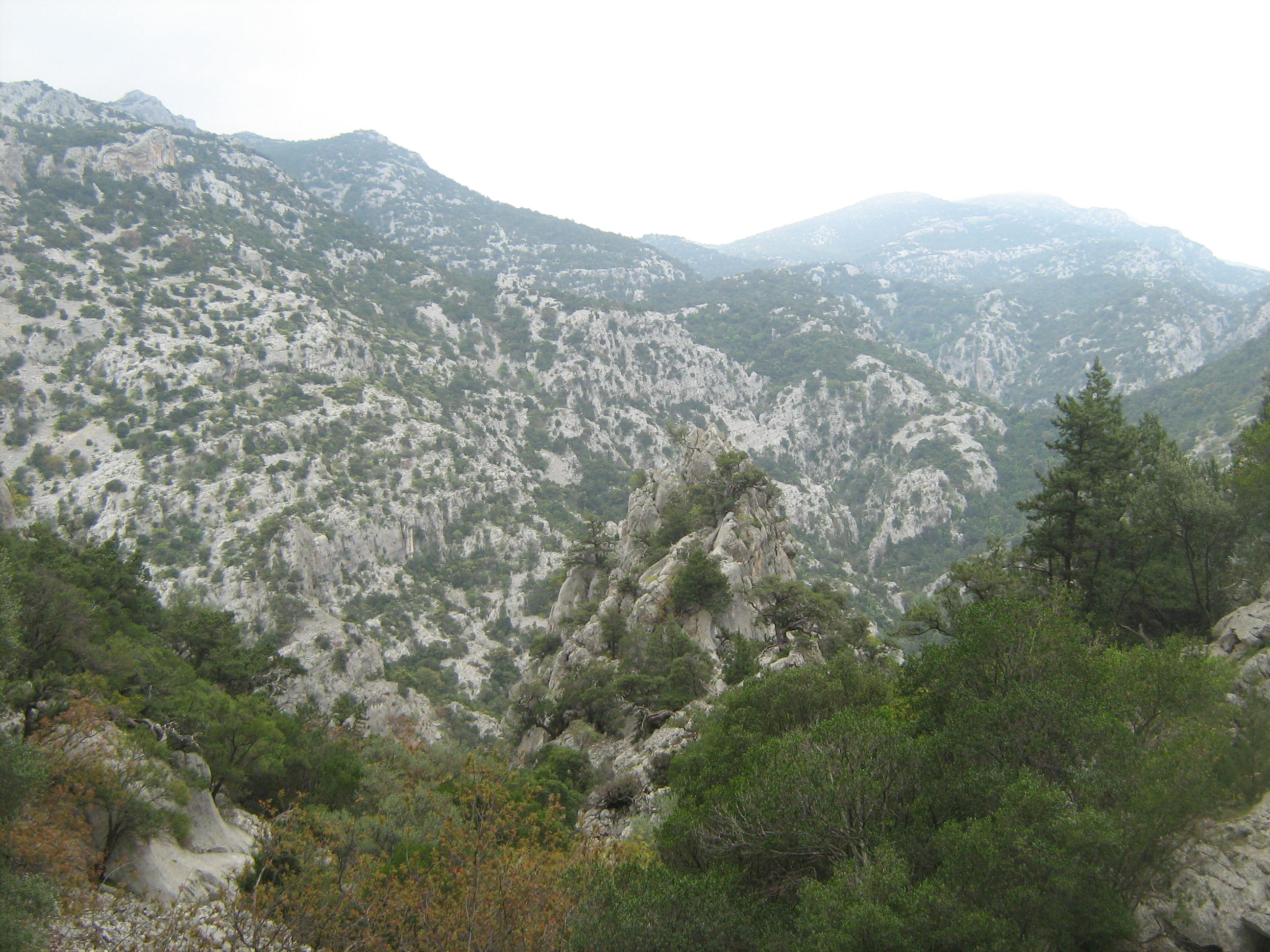 Codula Ilune is a canyon near Cala Luna, Dorgali, where flow the torrent codula ilune